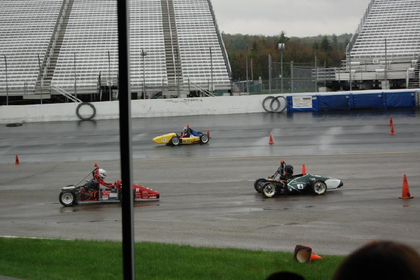 The line up of student-built cars from the 2009 Formula Hybrid Competition.